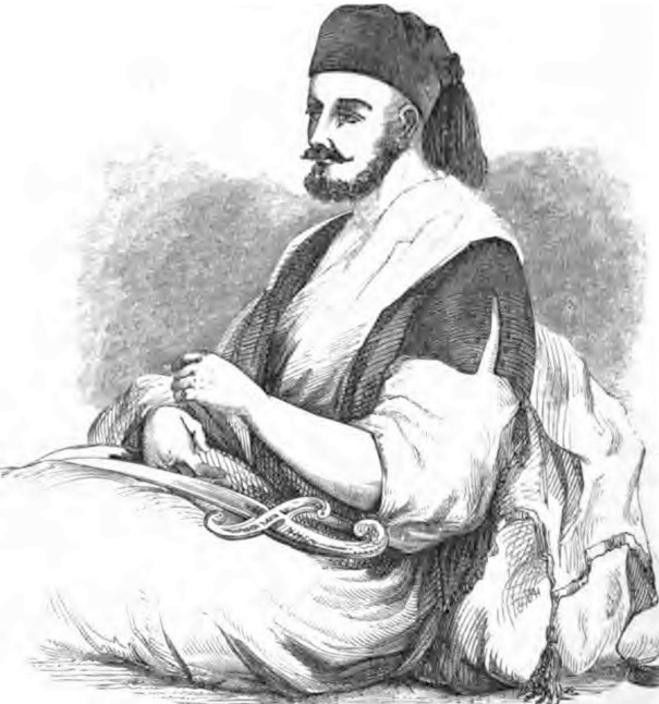 A sketch of the Ottoman de facto ruler of Galilee, Aqil Agha, by William Francis Lynch